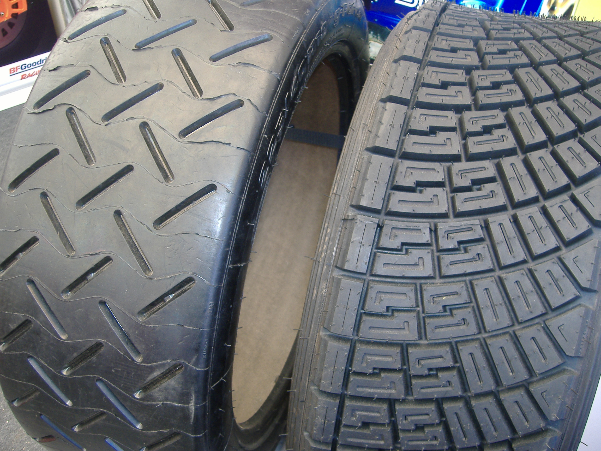 Photography taken at the World Rally Championship.